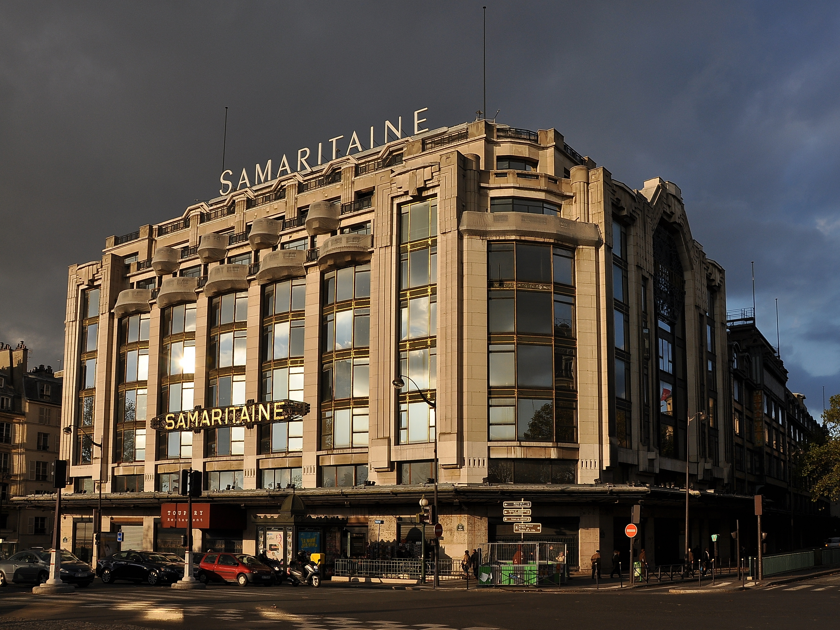 La Samaritaine a large department store located in the 1st arrondissement of Paris, France.